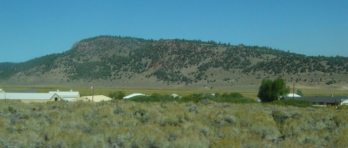 The Hot Creek Fish Hatchery with volcanic Resurgent Dome, in the Long Valley Caldera, Eastern Sierra, Mono County, California.